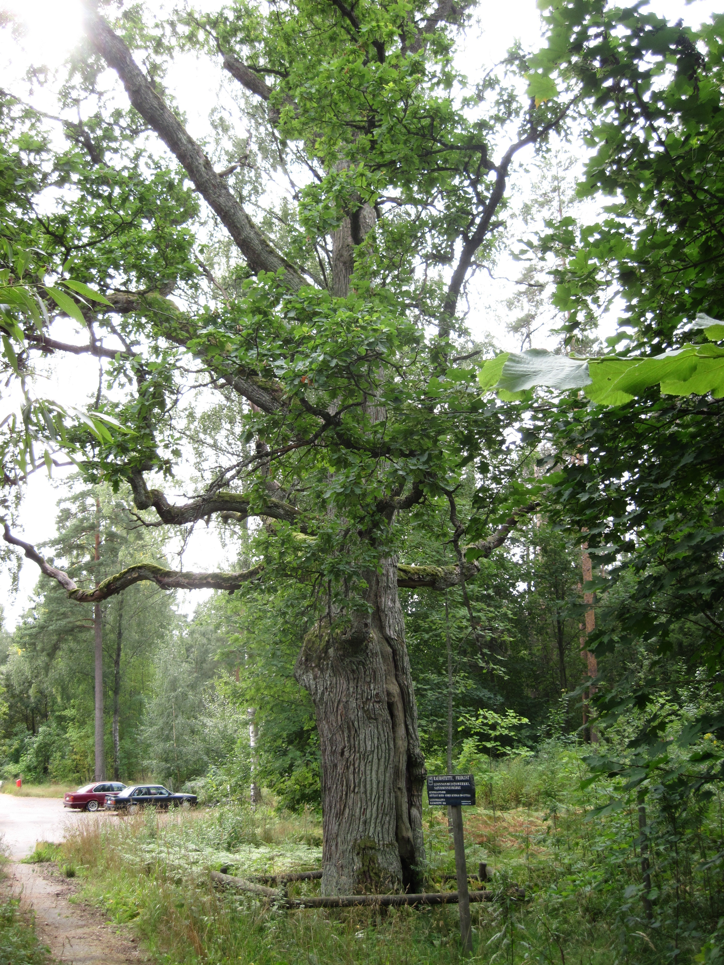 King's Oak in Helsinki, Finland